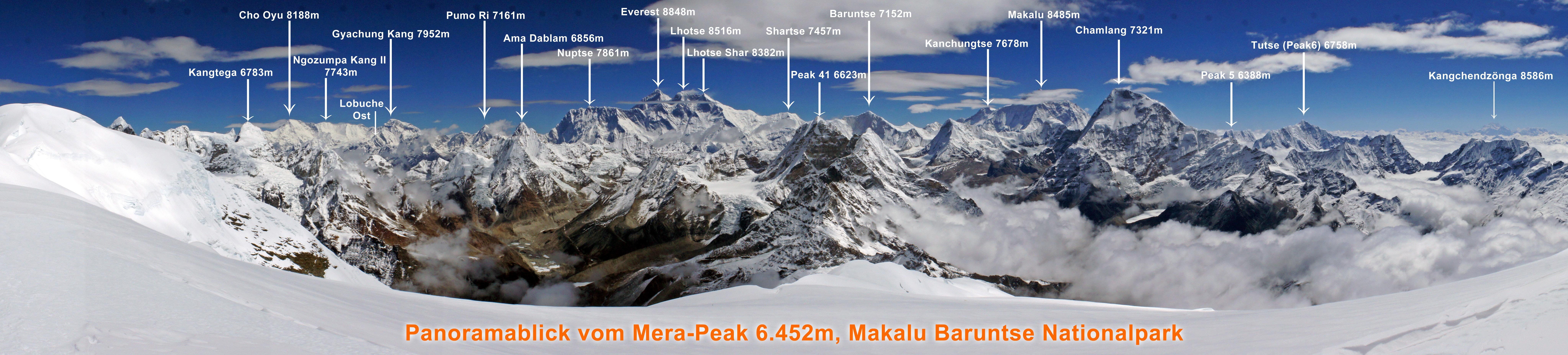 Khumburange panorama